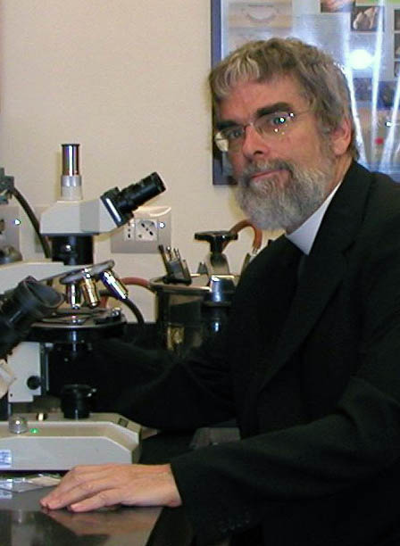 Br. Guy Consolmagno in lab